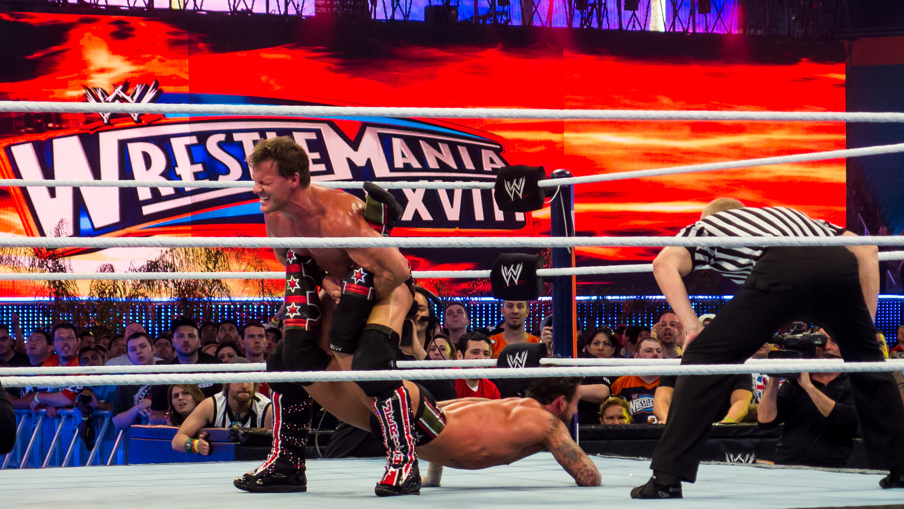 Chris Jericho v CM Punk at Wrestlemania XXVIII